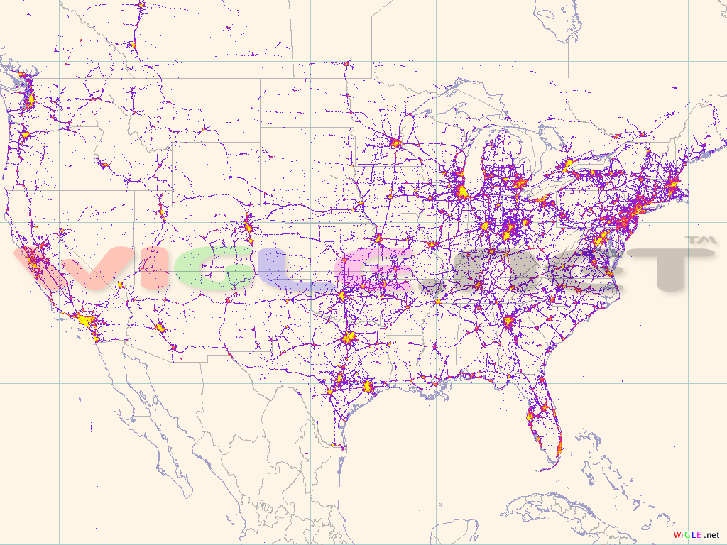 A map of Wi-Fi nodes in the United States collected by the WiGLE project.